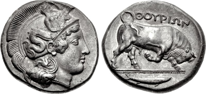 LUCANIA, Thourioi. Circa 400-350 BC. AR Double Nomos – Distater (25mm, 15.22 g, 10h). Head of Athena right, wearing crested Corinthian helmet decorated on its bowl with Skylla scanning right, and on its neck guard with griffin right / Bull butting right, ligate VE on its hind quarter; ΘOYPIΩN above; in exergue, fish right.